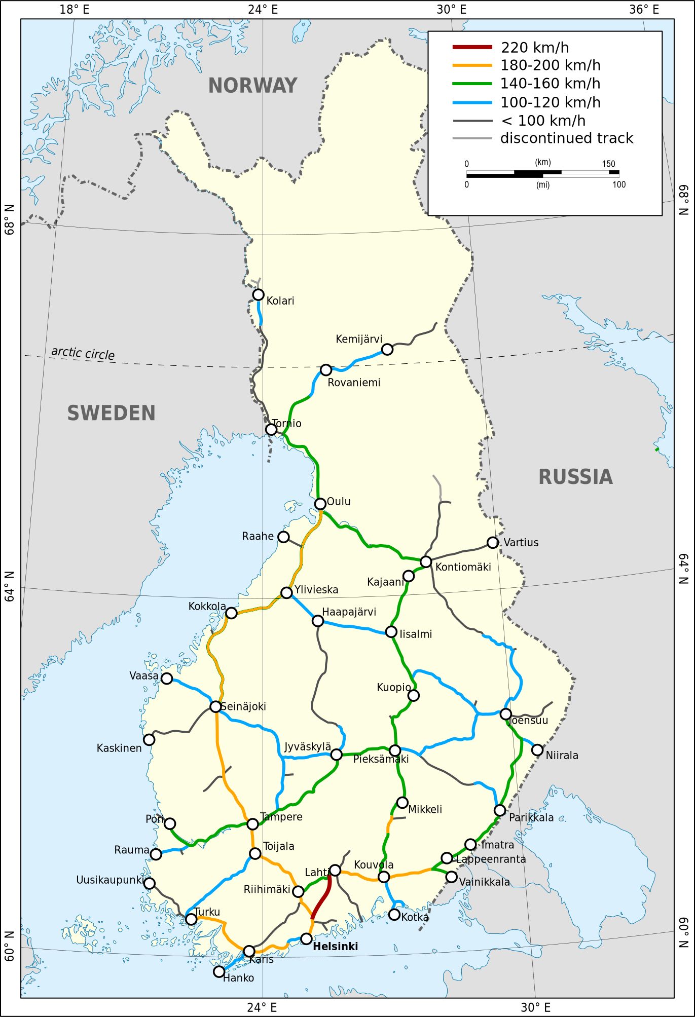 The maximum running speeds on the railway network of Finland, showing the situation at the end of the year 2019